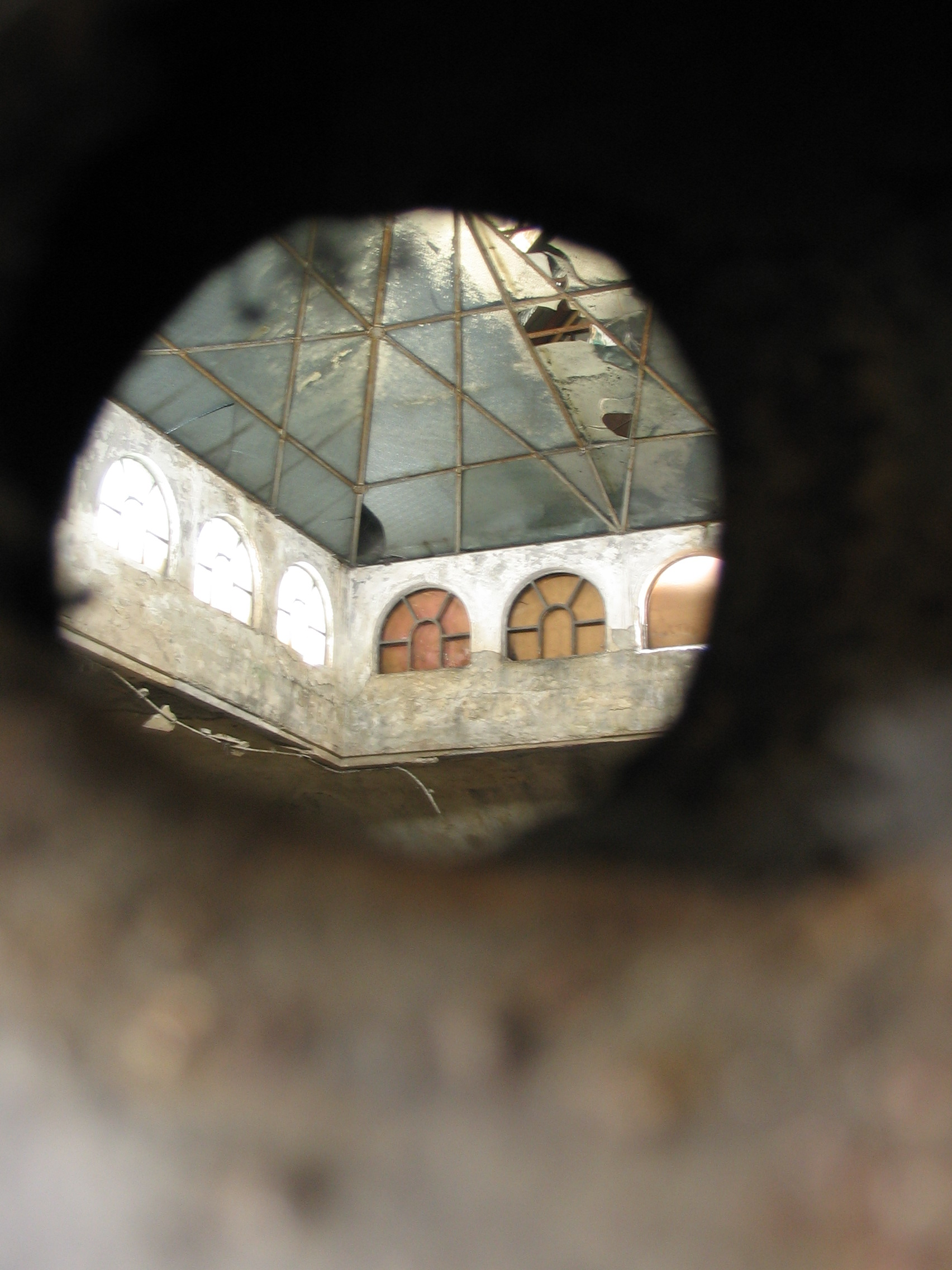 Mordechai Tigner Synagogue in Kraków